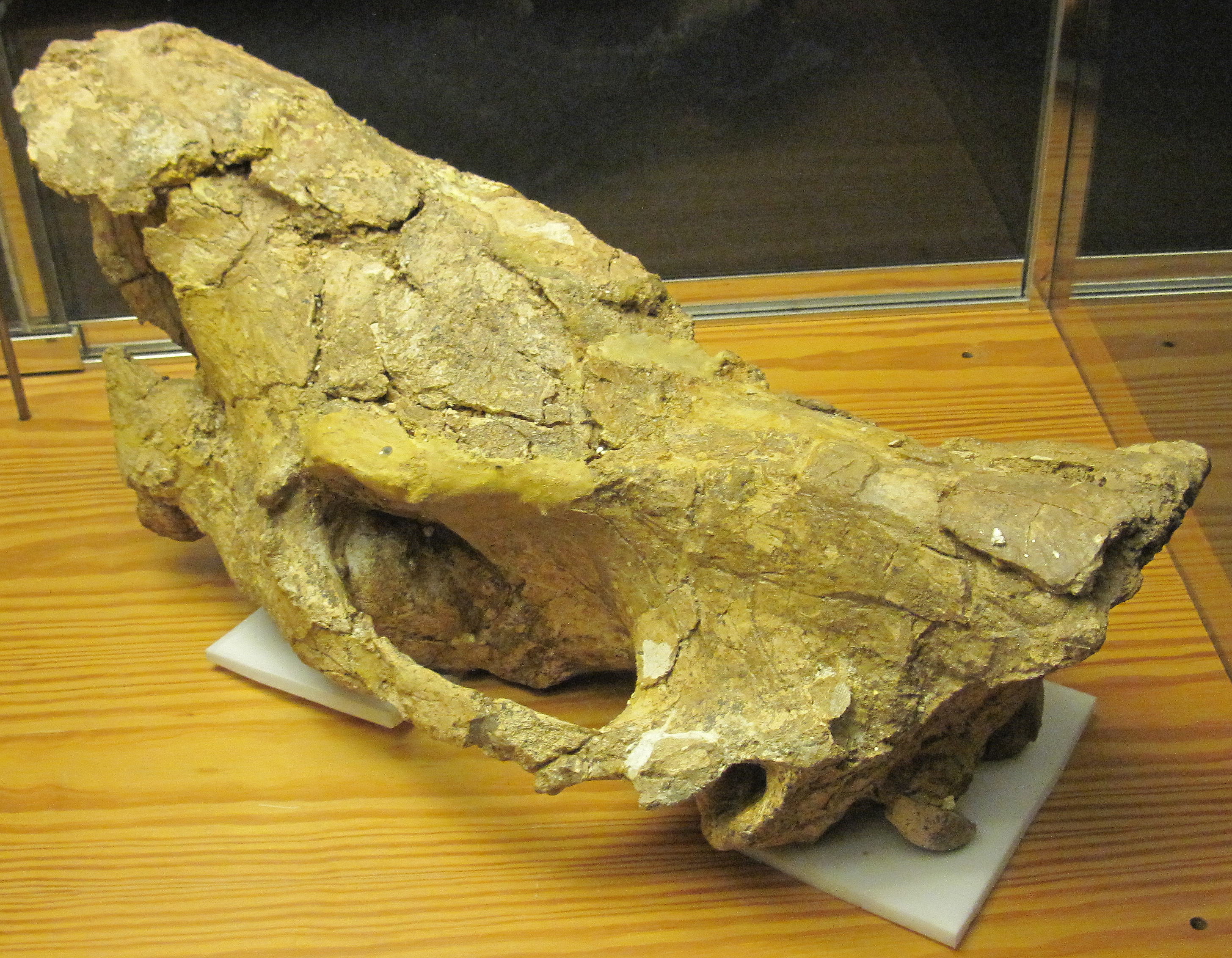 Rhinoceros skull from the Lower Palaeolithic deposits at La Cotte de Saint Brélade. 120-250000 years old.